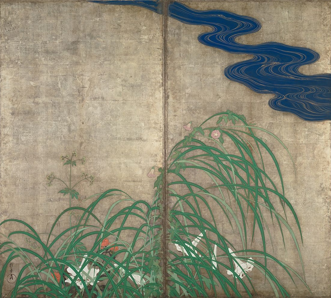 Summer and Autumn Flower Plants (right) by Sakai Hōitsu (Tokyo National Museum)